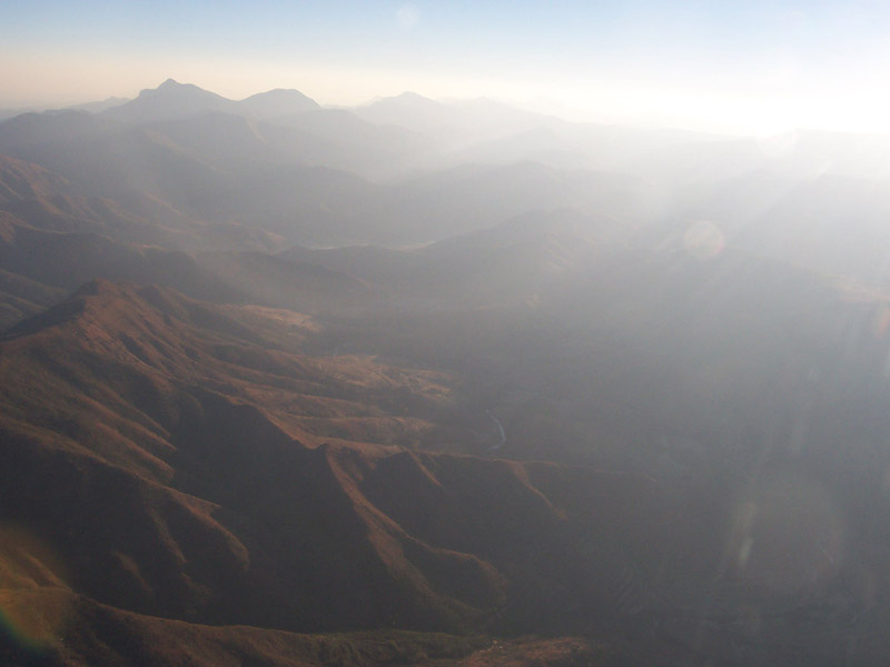 Lesotho Highlands from the air (WT-shared) Tim Sandell Taken in June 2005. For use outside Wikivoyage, please see (WT-shared) here.